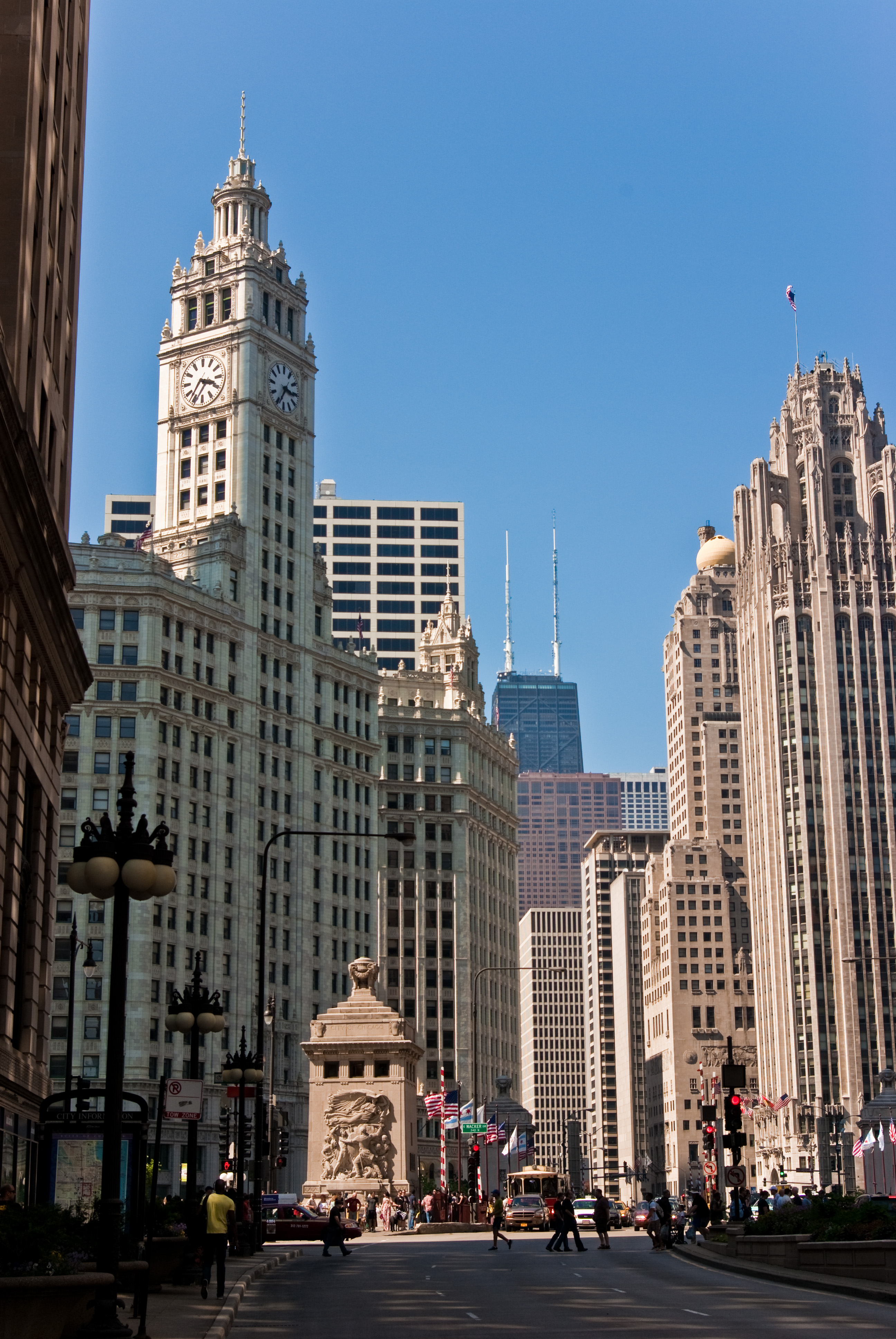 Tribune Tower